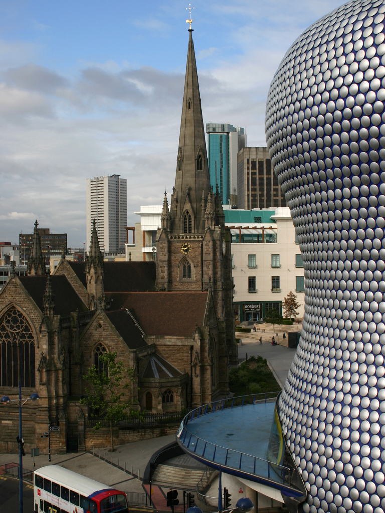 The Bull Ring, St Martins Church and Selfridges from the north, Birmingham.